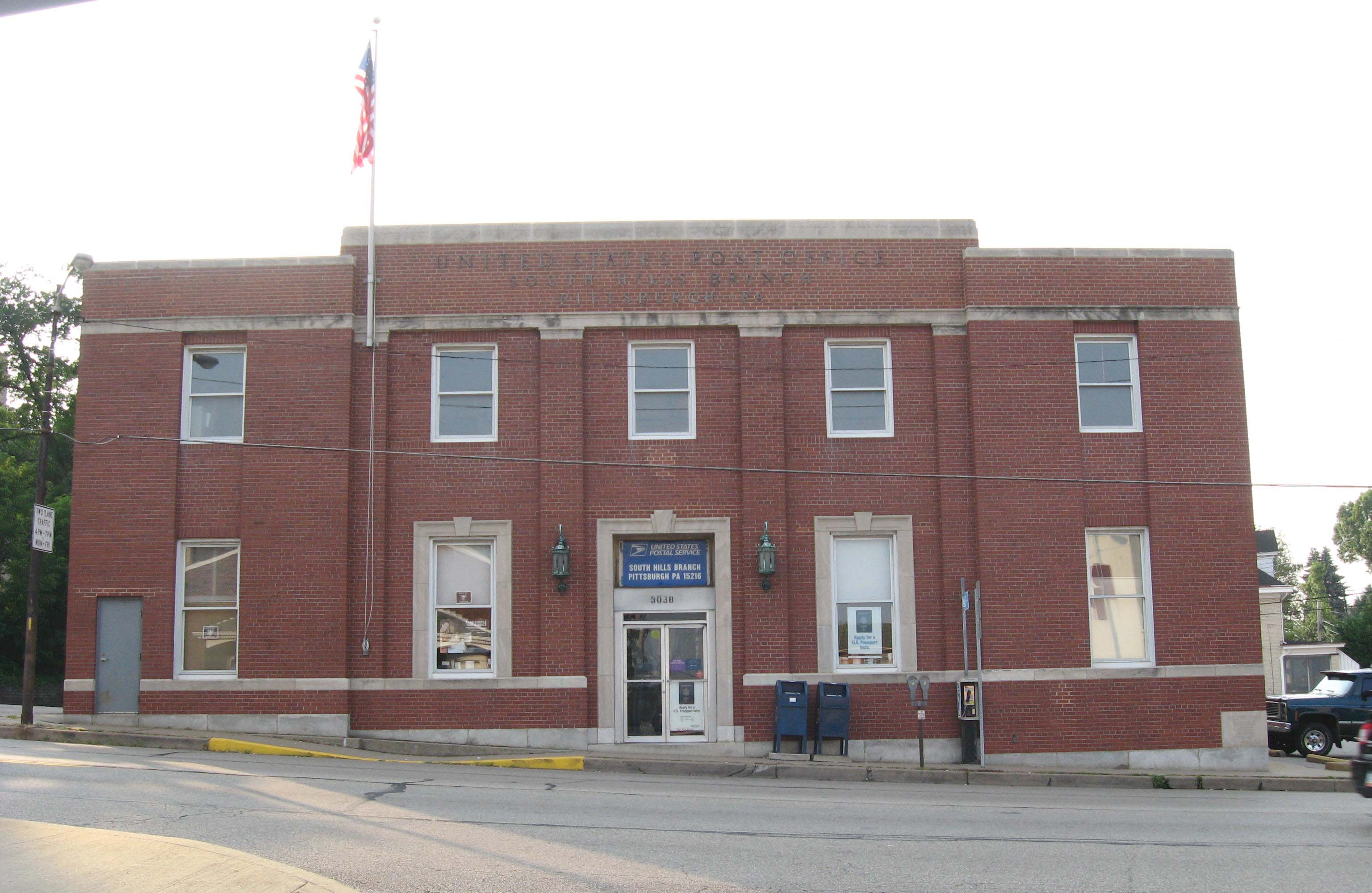 Looking northwest from Kelton Avenue across West Liberty Avenue at South Hills (Pennsylvania) Post Office, 3038 West Liberty Avenue in Dormont.